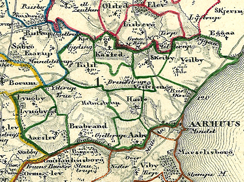 Hasle Herred in Århus Amt 1826, Denmark.